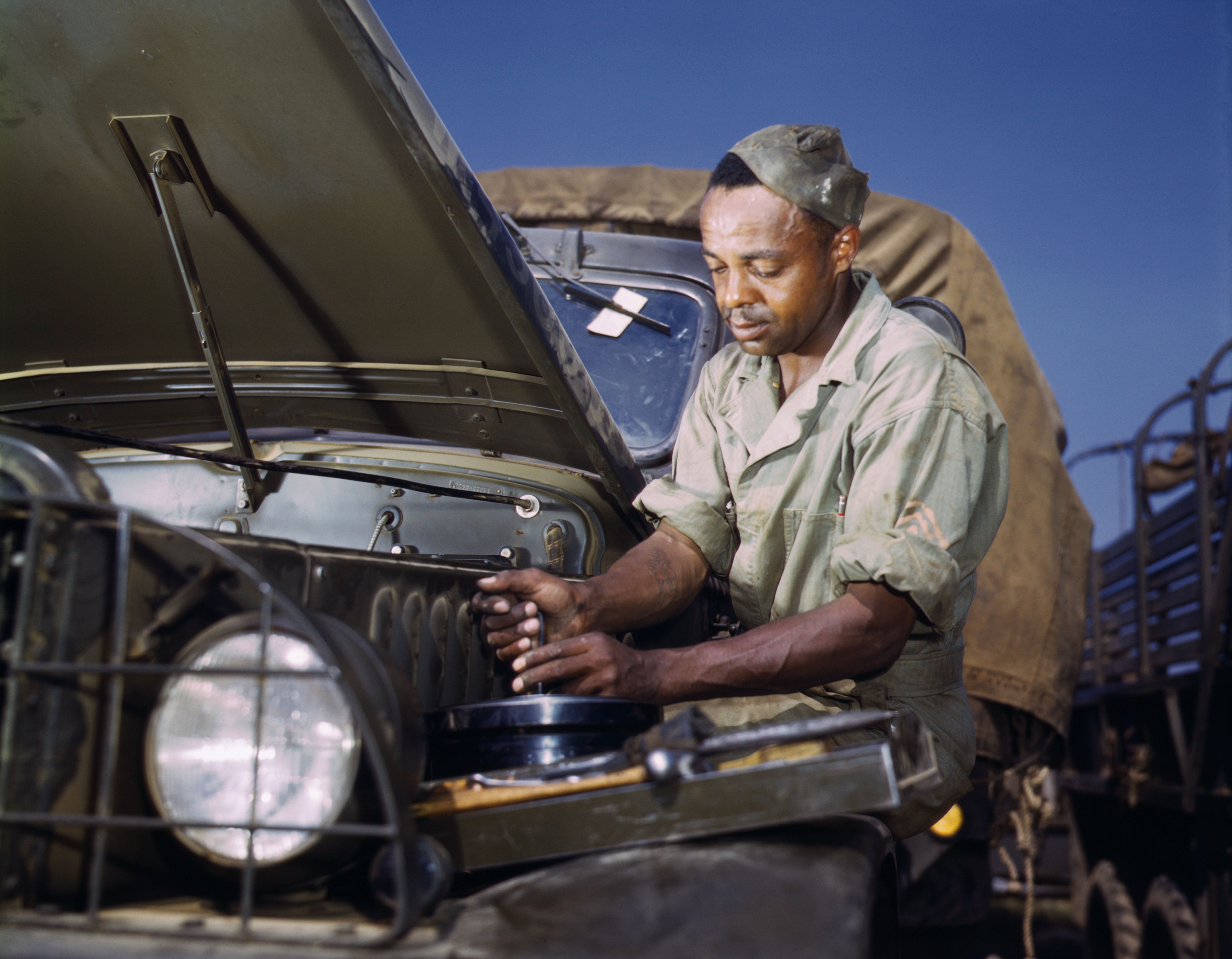 Original caption said: Colored mechanic, motor maintenance section, Ft. Knox, Ky.